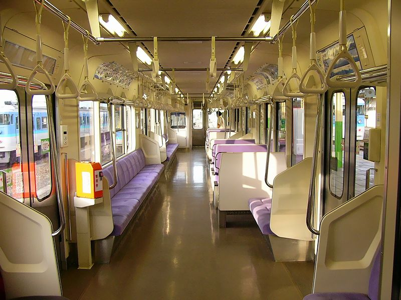 East Japan railway series"E127"(type100)inside.